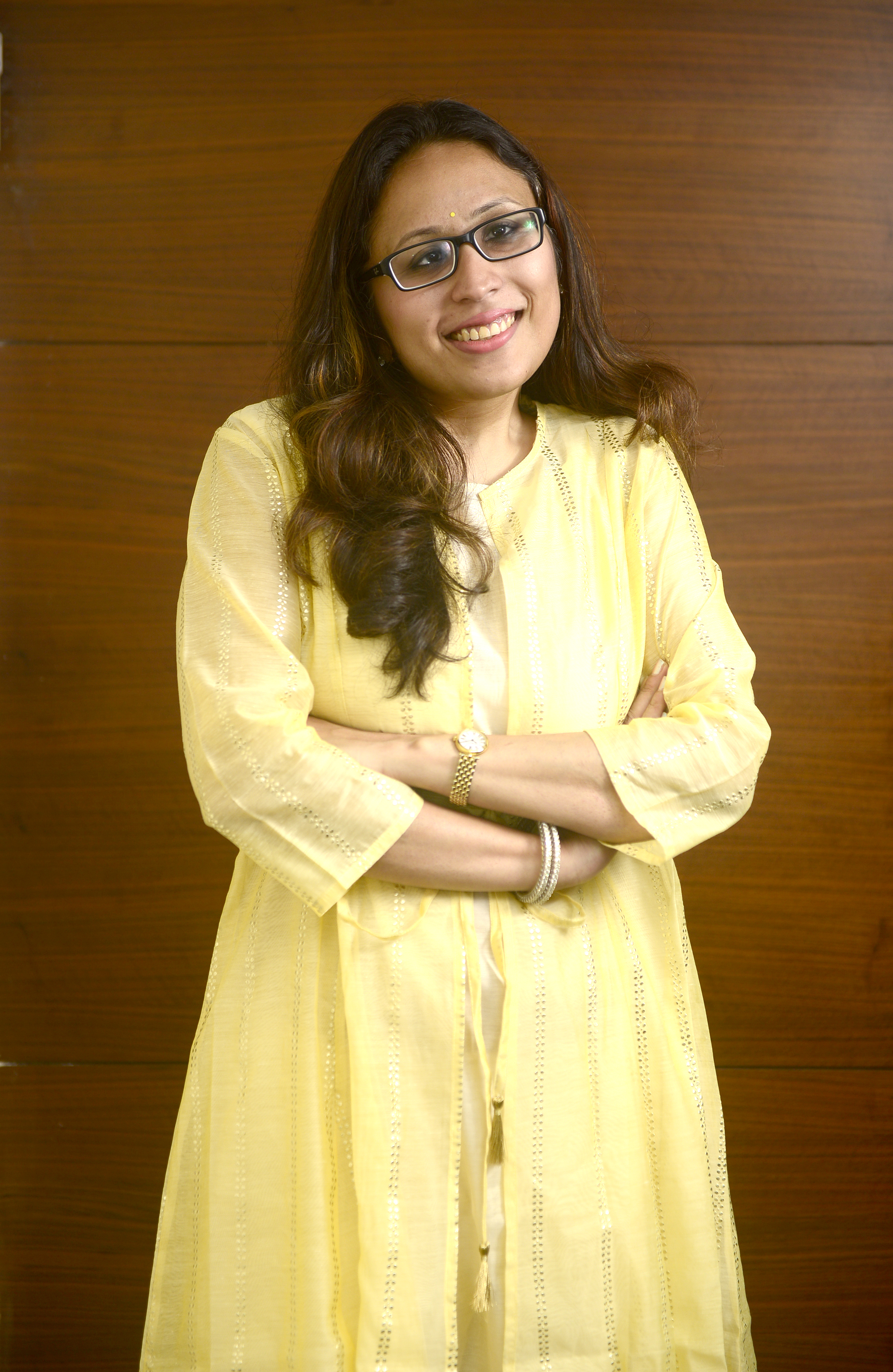 Photograph of Radhika Gupta CEO